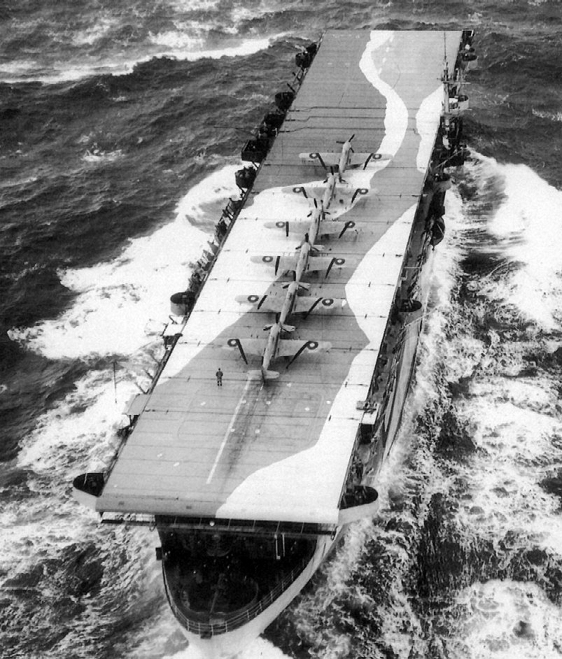 HMS Avenger (D14) (ex-mercantile Rio Hudson) underway in rough seas, date and location unknown. Note the unusual camouflage scheme on her flight deck. Six Sea Hurricane IIC fighters are lined-up on the centre line.